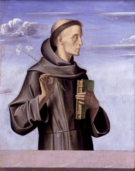 Anthony of Padua